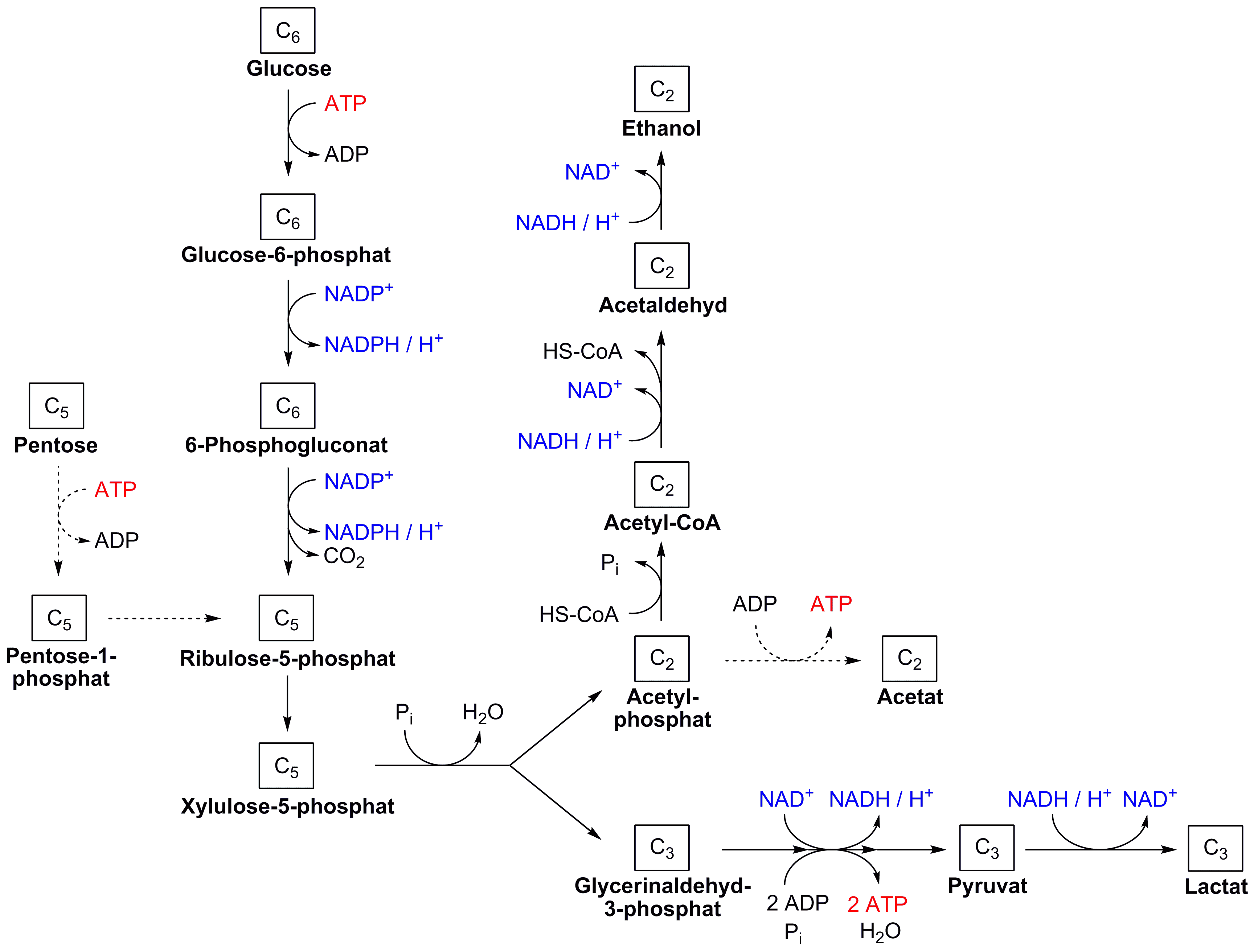 Heterofermentative Milchsäuregärung, entweder aus Glucose oder Pentose (gestrichelt)